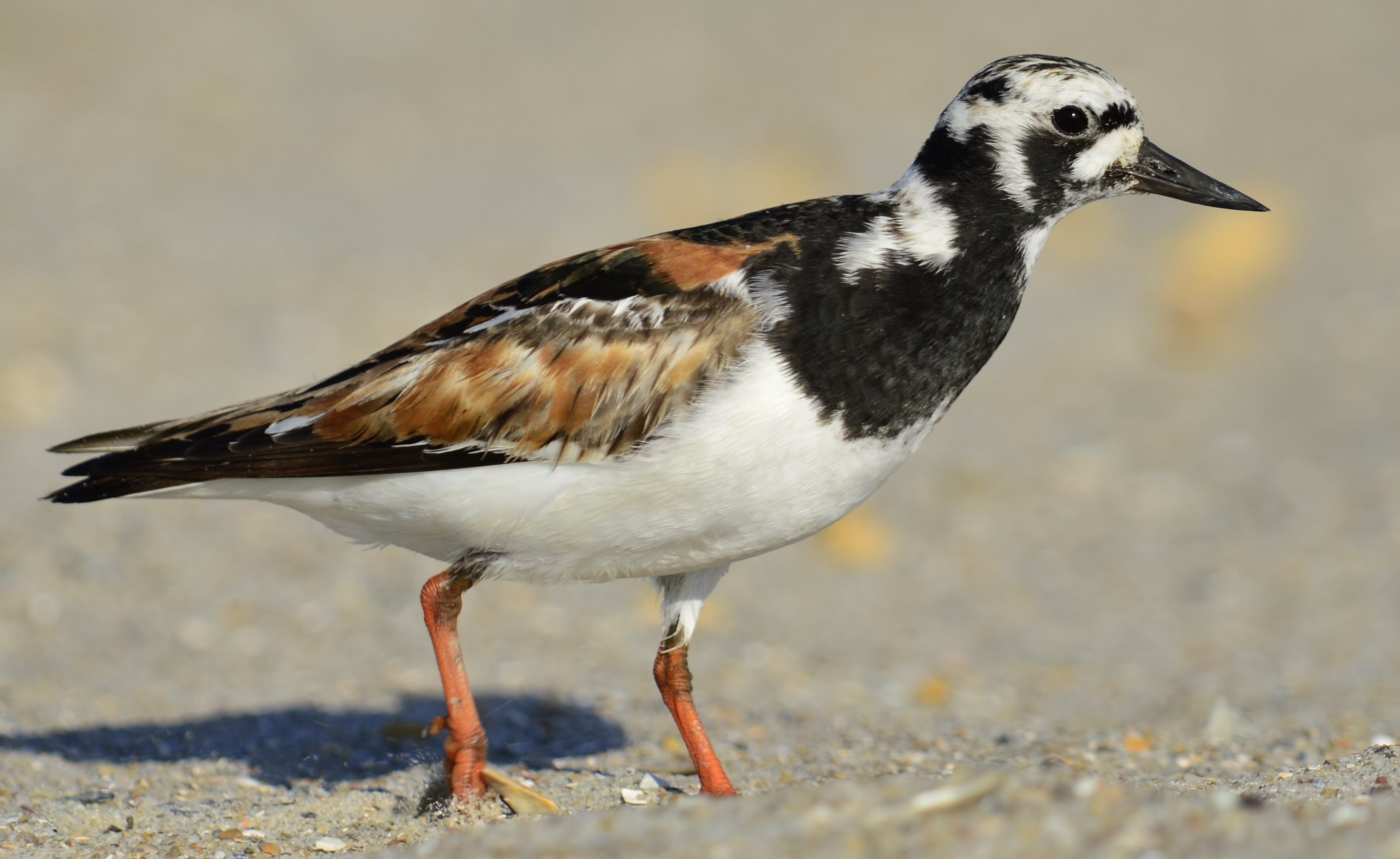 Taken by Gareth Rasberry, Bald Head Island, North Carolina, USA